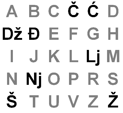 Serbian Latin alphabet